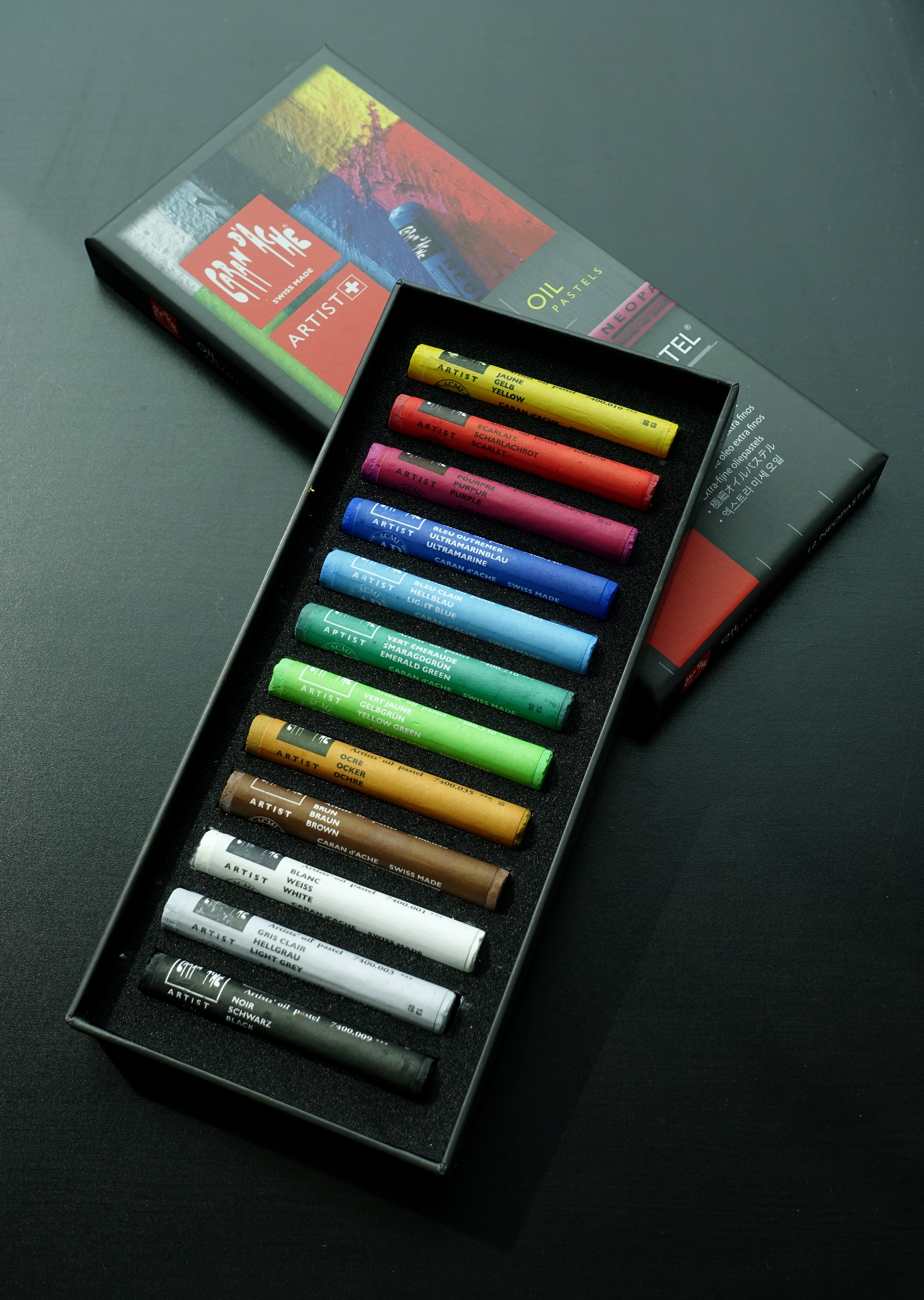 Caran d'Ache NEOPASTEL 12 colors soft oil pastels